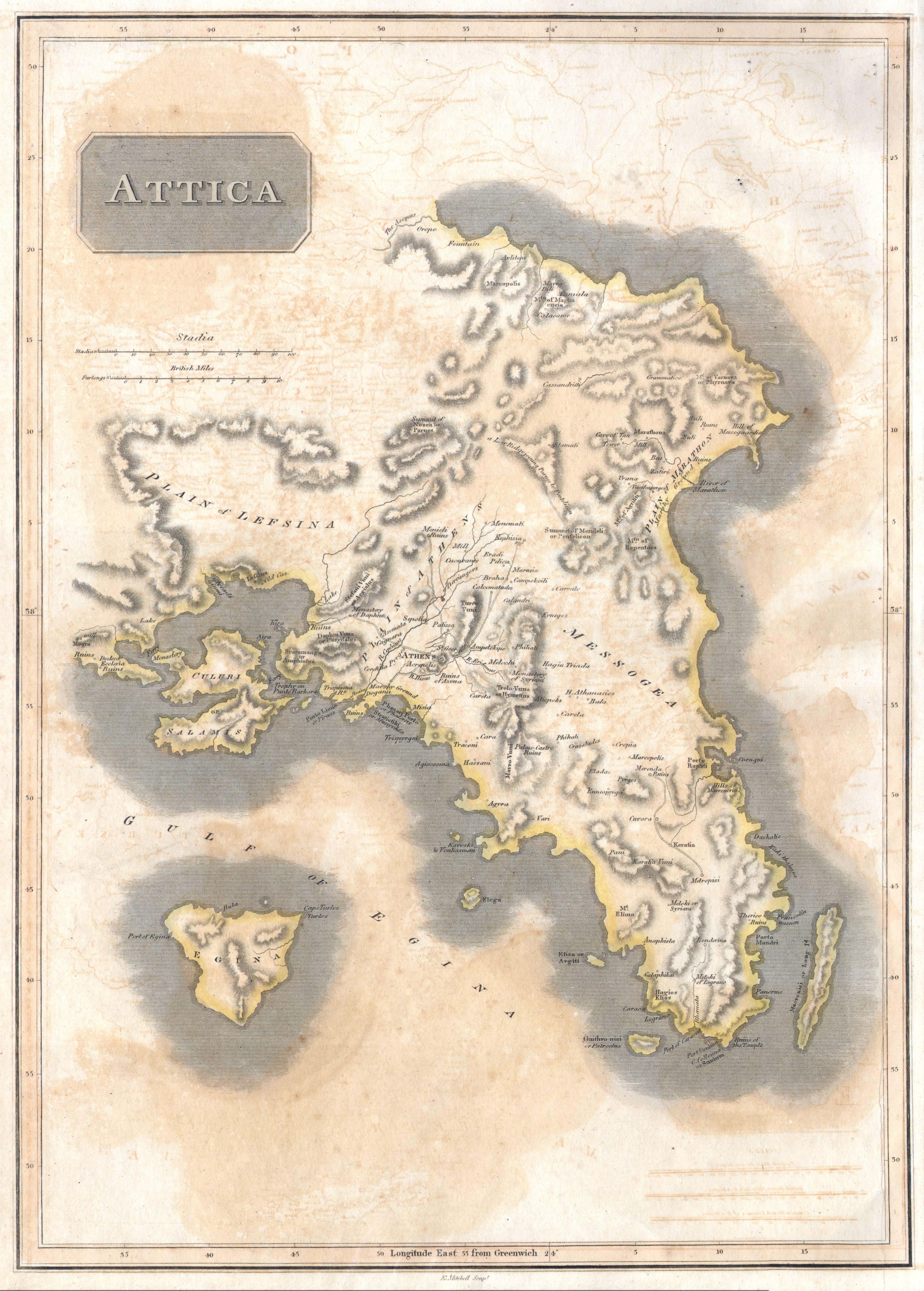 This is an attractive 1814 John Thomson map of Attica, Greece. Map features many of the important cities and site in early Greek History. Shows Athens, the Plain of Marathon, Salamis, and the sites of numerous historic ruins. Extends as far west as Megra and as far north as the Ascopus River. Engraved by E. Mitchell for Thomson’s General Atlas.